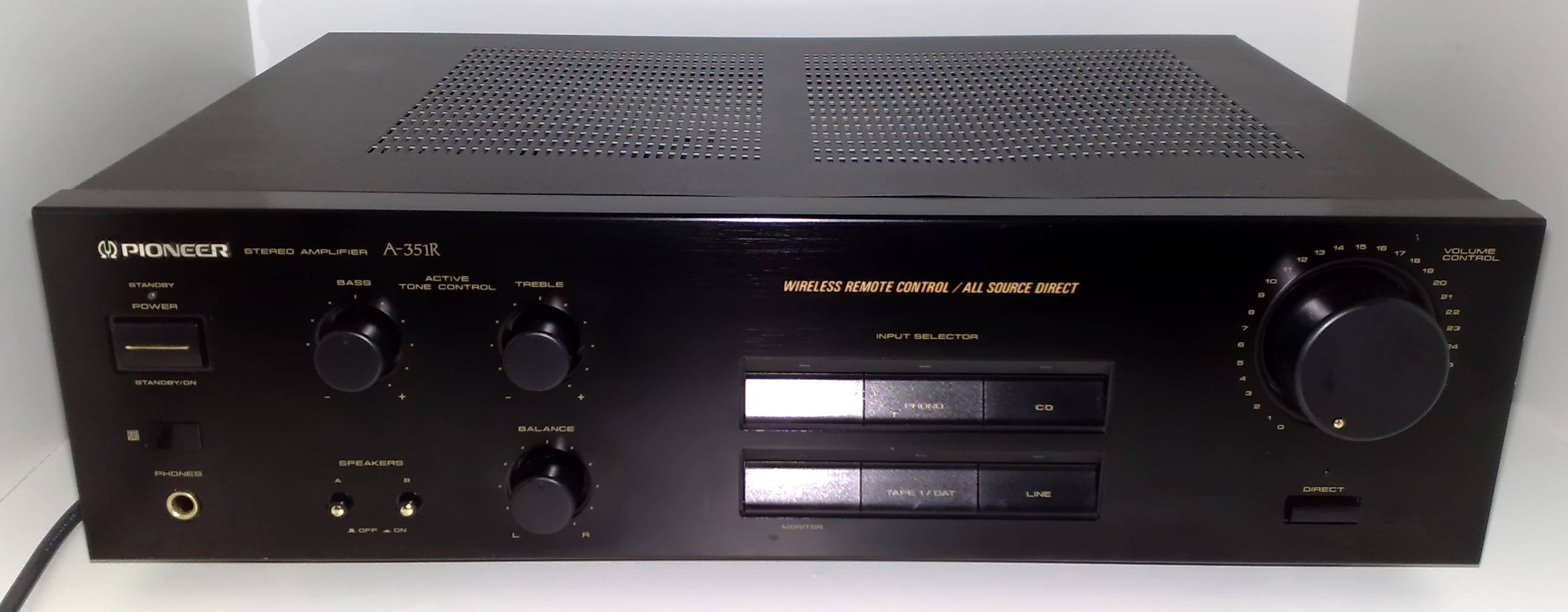 Pioneer A-351R stereo amplifier (1992-93), 30 W per channel (8 Ohm, stereo).